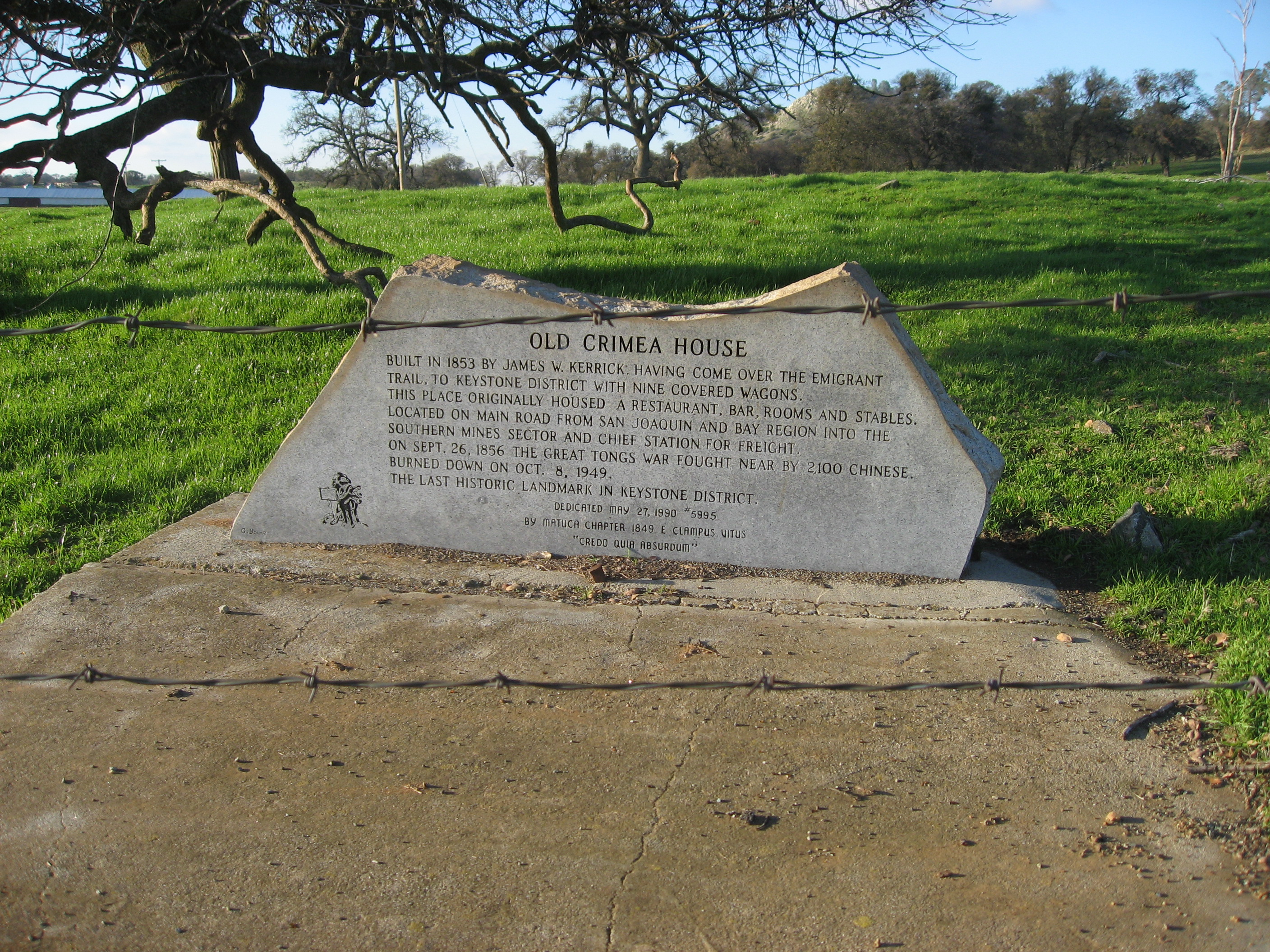 Old Crimea House outside Chinese Camp, near where the first Tong War was fought.